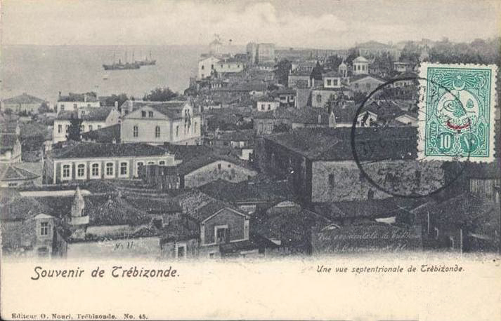 Postcard by Osman Nuri with a view on northern Trebizond (Trabzon, Turkey).